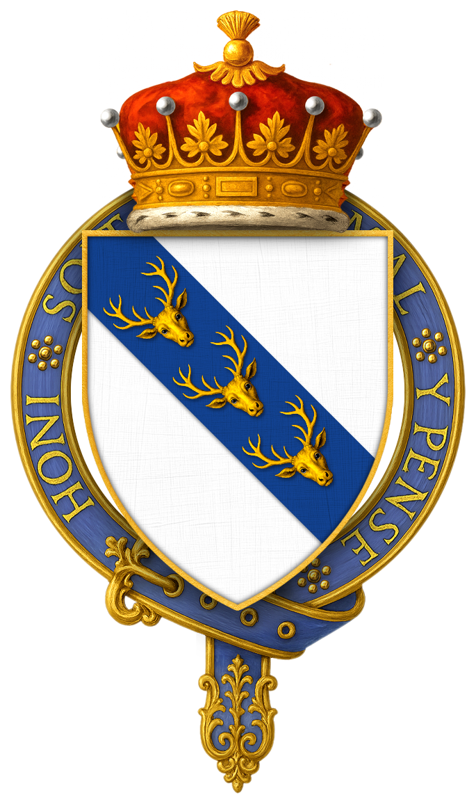 Garter-encircled shield of arms of Edward Stanley, 17th Earl of Derby